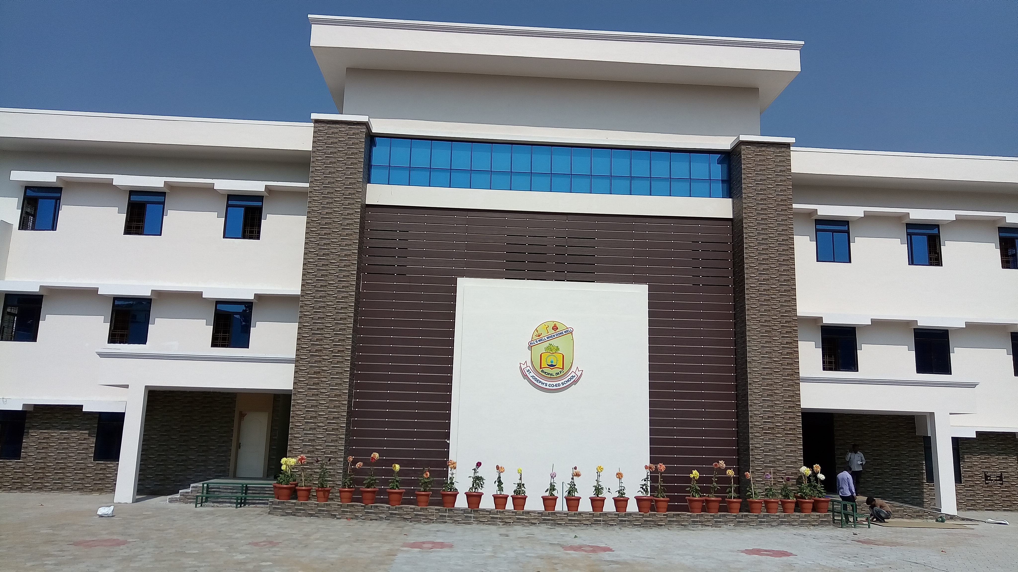 st Joseph's co-ed school Bhopal new block